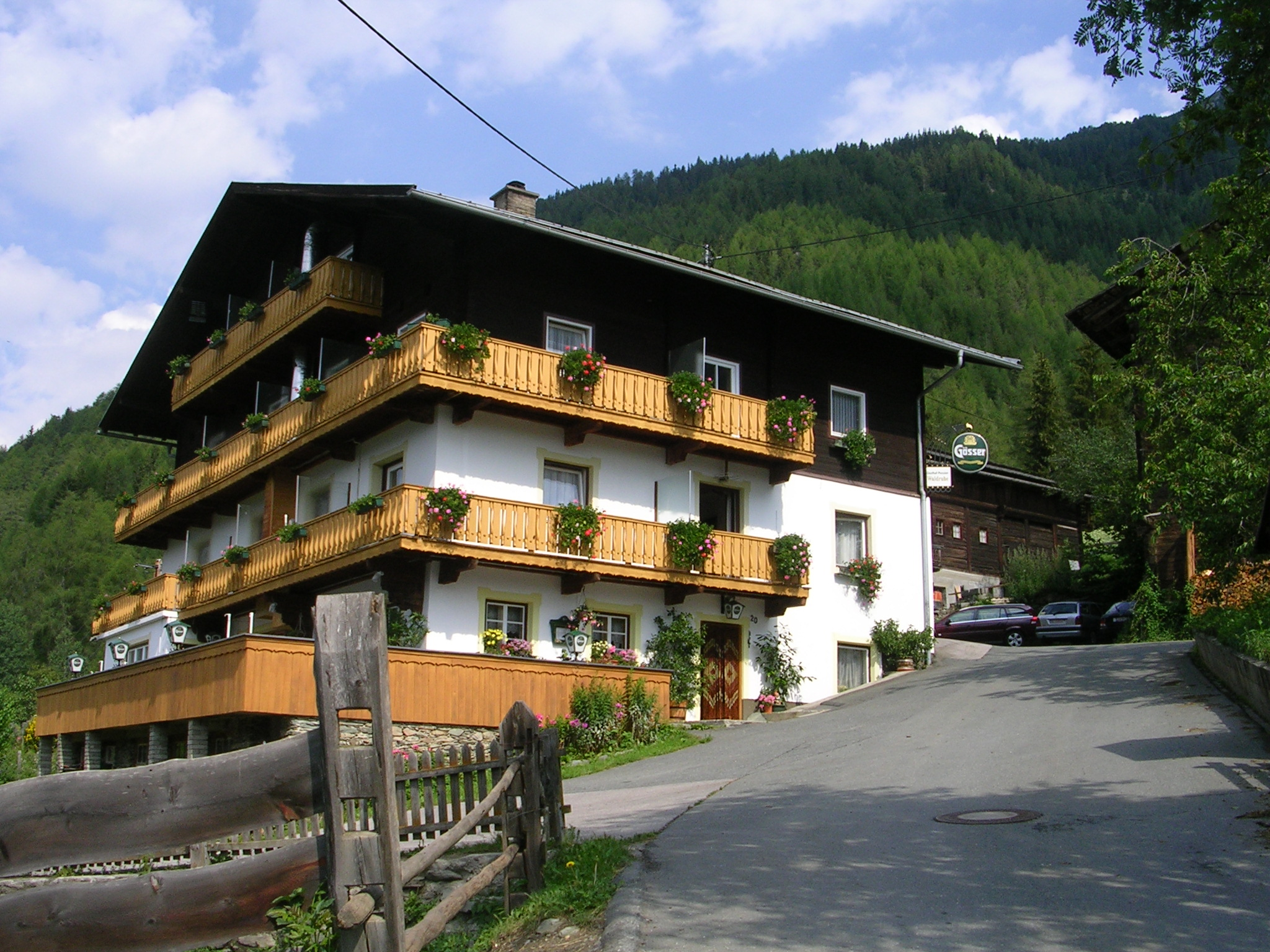 Gasthof Waldruhe in Marin, Göriach Marin Nr. 2